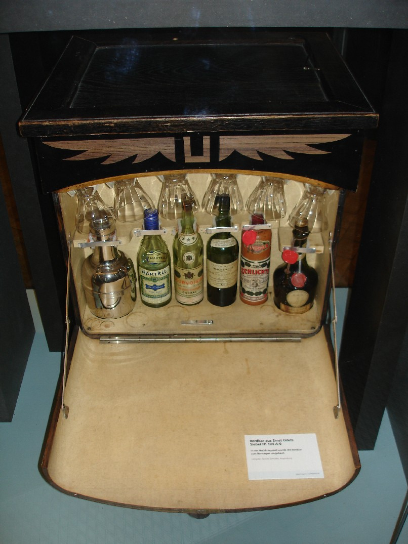 Udets's board bar from his Siebel Fh 104 A-0 on display in the Deutsches Technikmuseum Berlin. Picture taken Feb 20, 2007 at Deutsches Technik Museum in Berlin